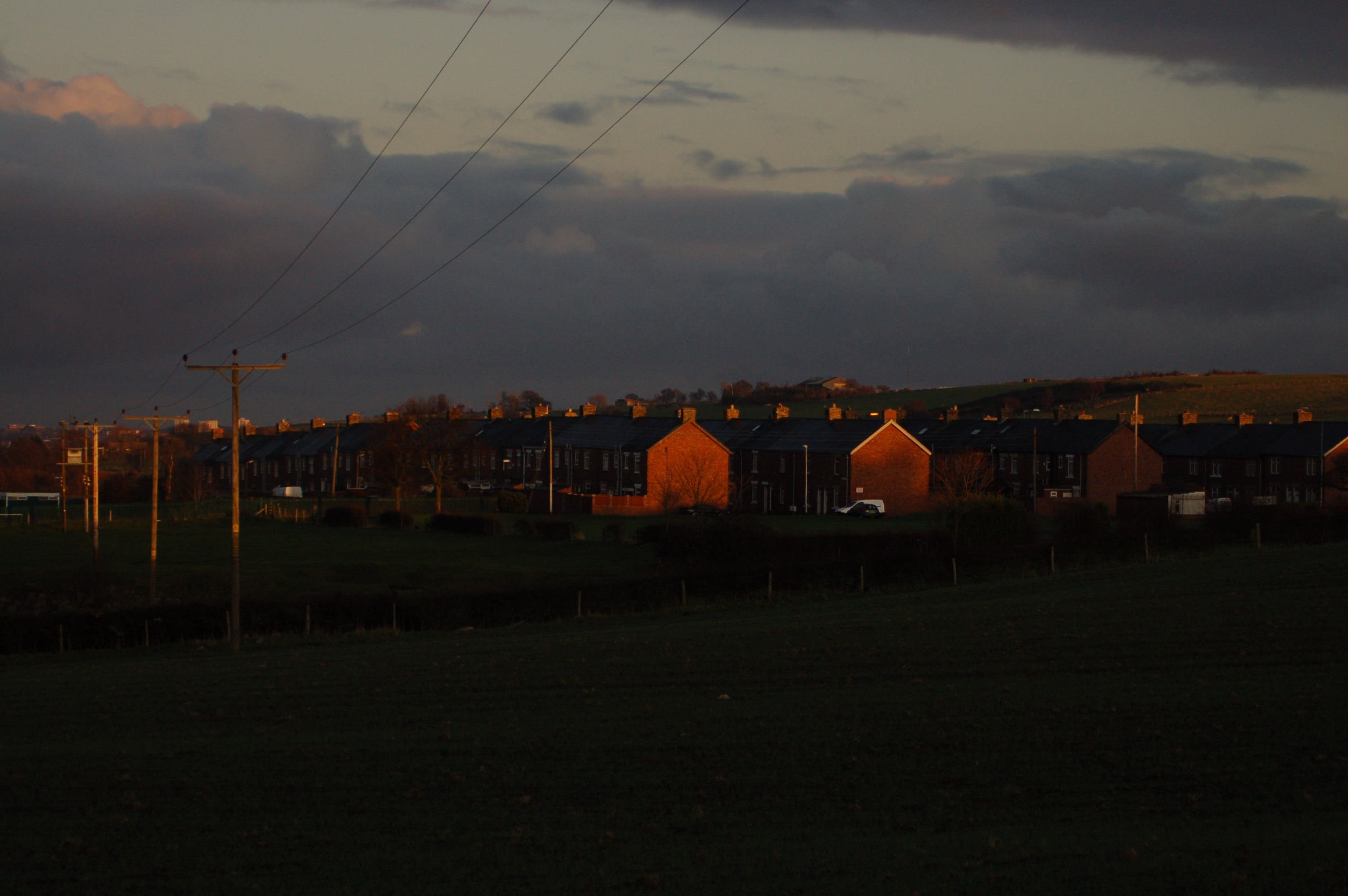 Cuthbert Street and Church Street, Marley Hill, with Gateshead in the background.